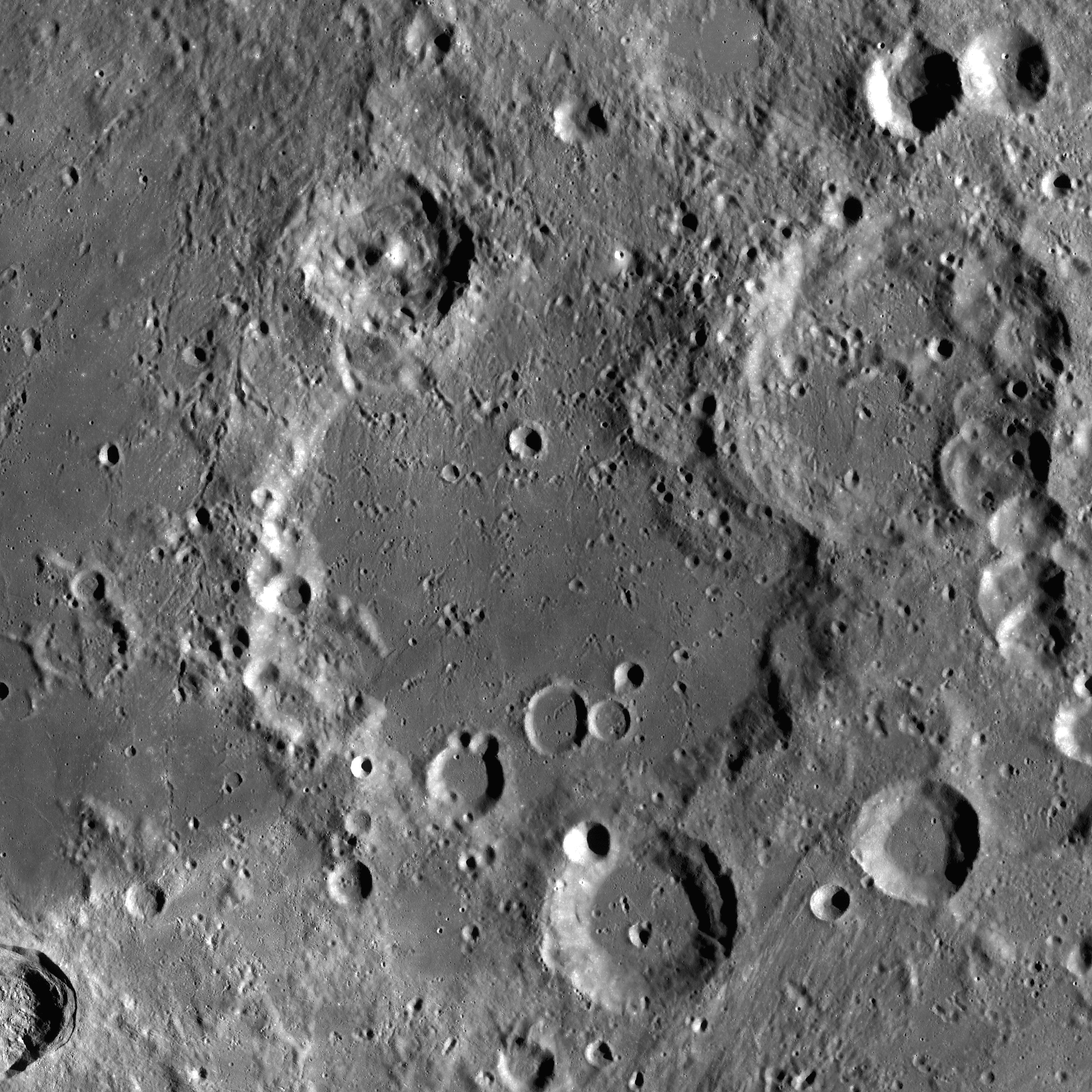 Craters Vendelinus on the Moon. Smaller craters on its edge are Lohse (to northwest), Lamé (to northeast) and Holden (to south). Mosaic of photos by Lunar Reconnaissance Orbiter, made with Wide Angle Camera. Size of the image is 270×270 km, north is up.